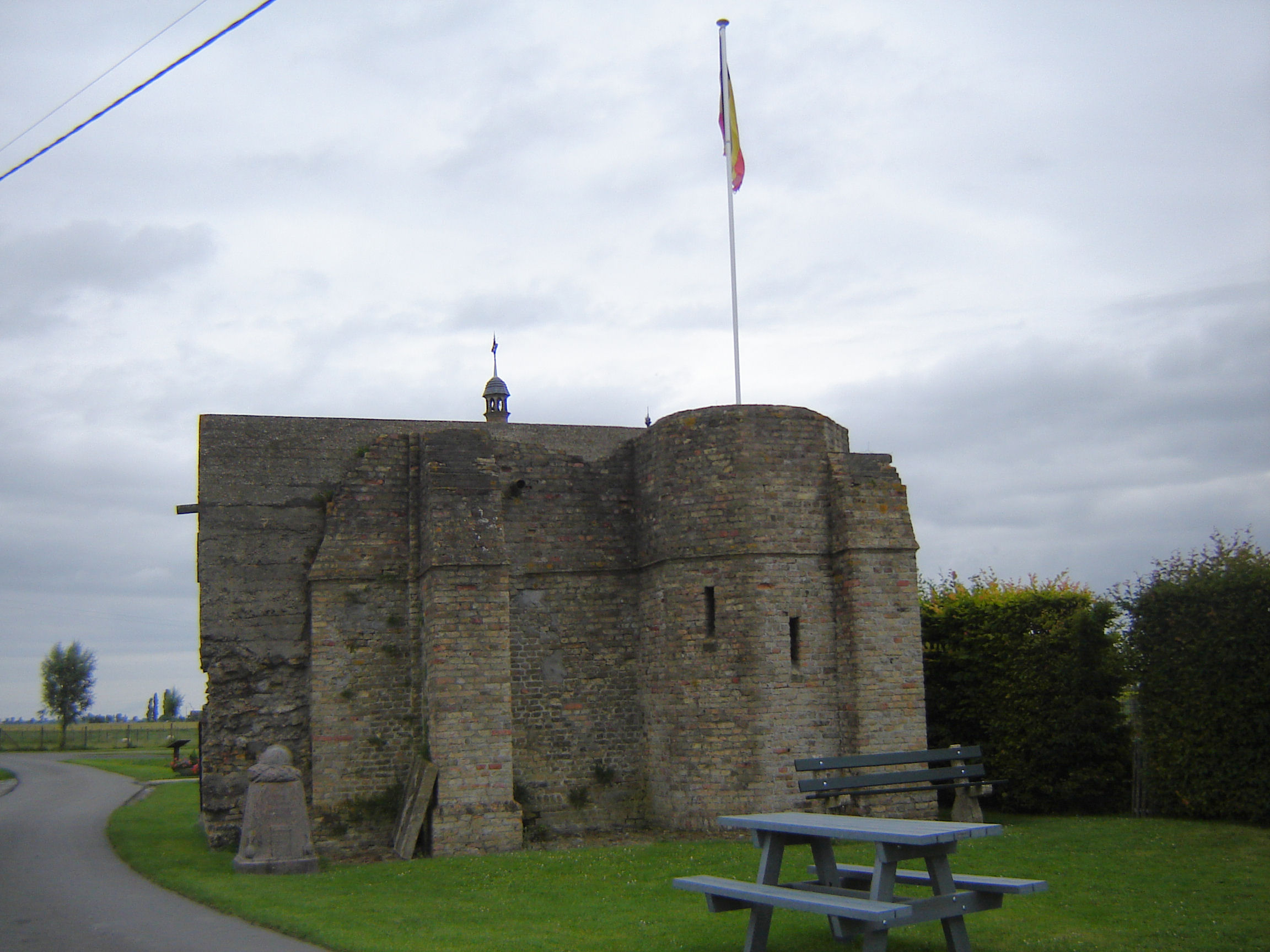 Restored base of the tower of the former church of Saint Peter in the former village center of Stuivekenskerke. Church was pulled down in 1870, except for its tower. The tower was destroyed during World War I however. Stuivekenskerke, Diksmuide, West Flanders, Belgium